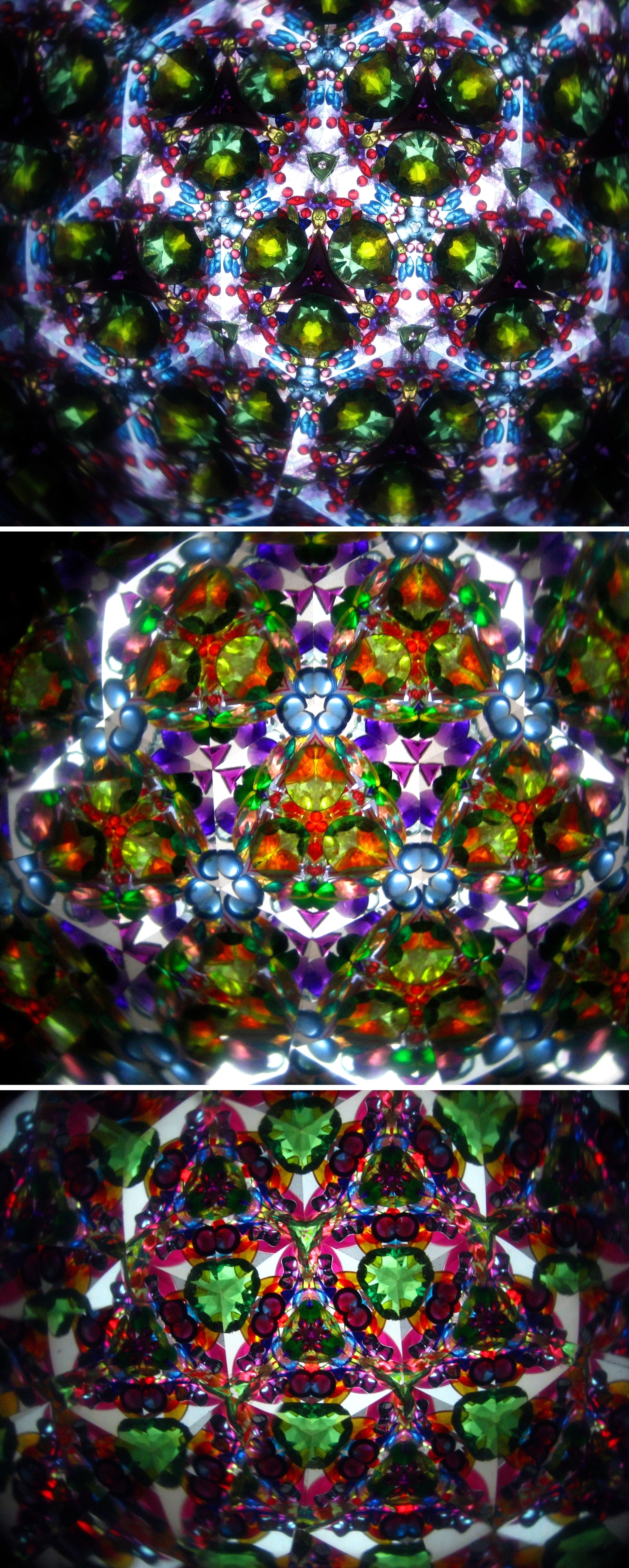 Patterns generated by a kaleidoscope.